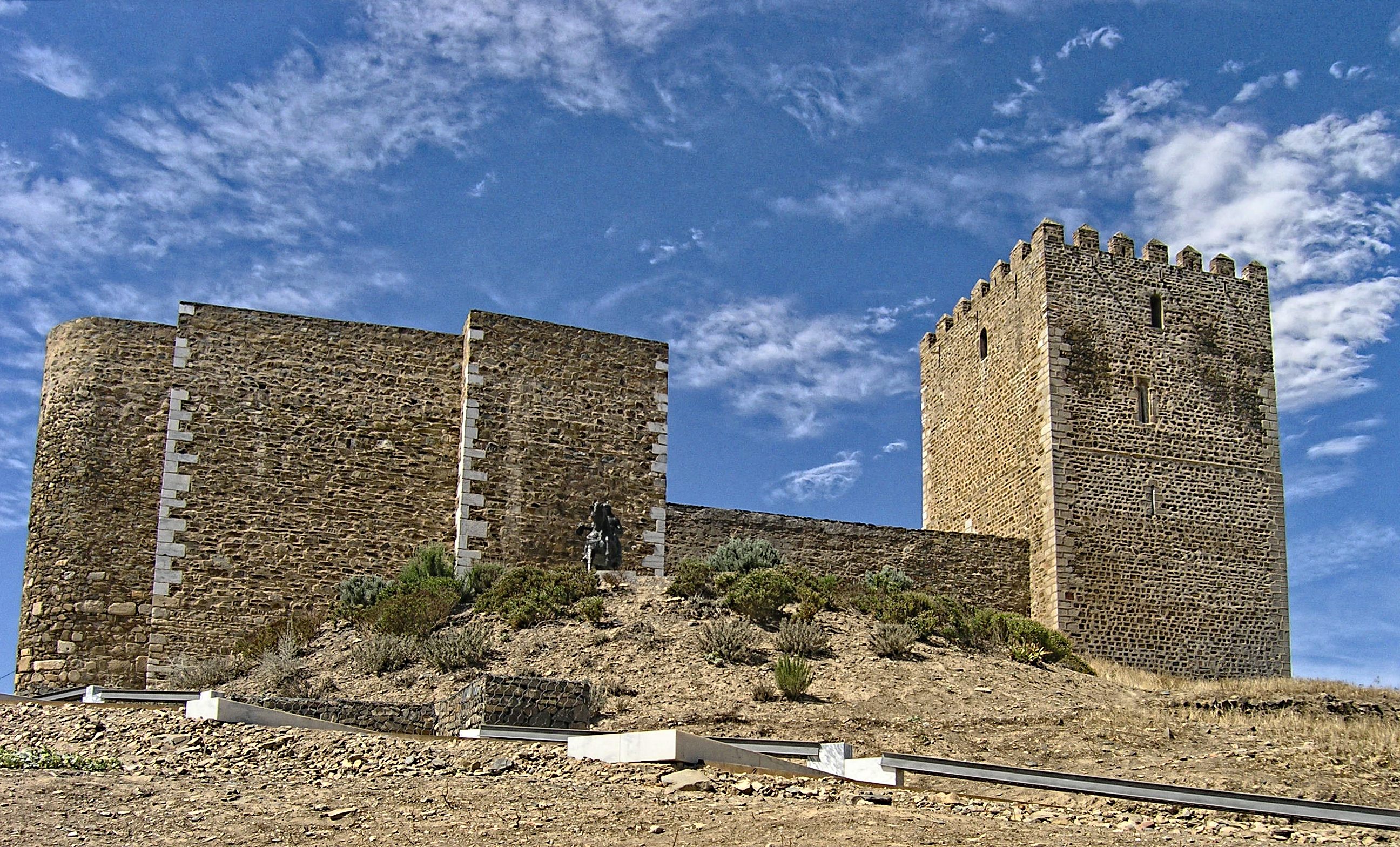 Mertola castle, Mertola, Portugal